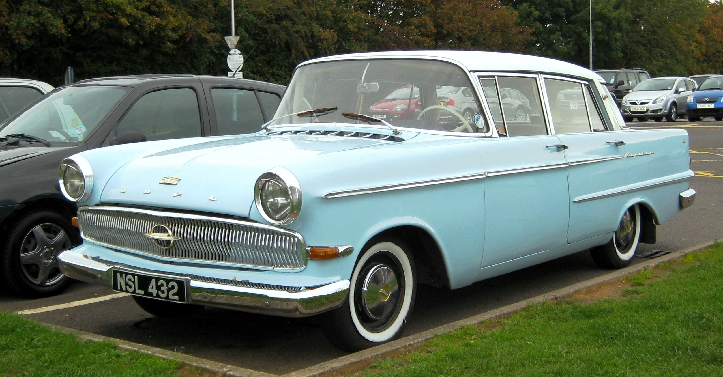 Opel Kapitaen between London and Swansea not taxed for UK road use since September 2013